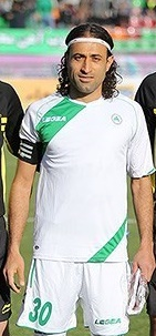 Mehdi Rajbzadeh